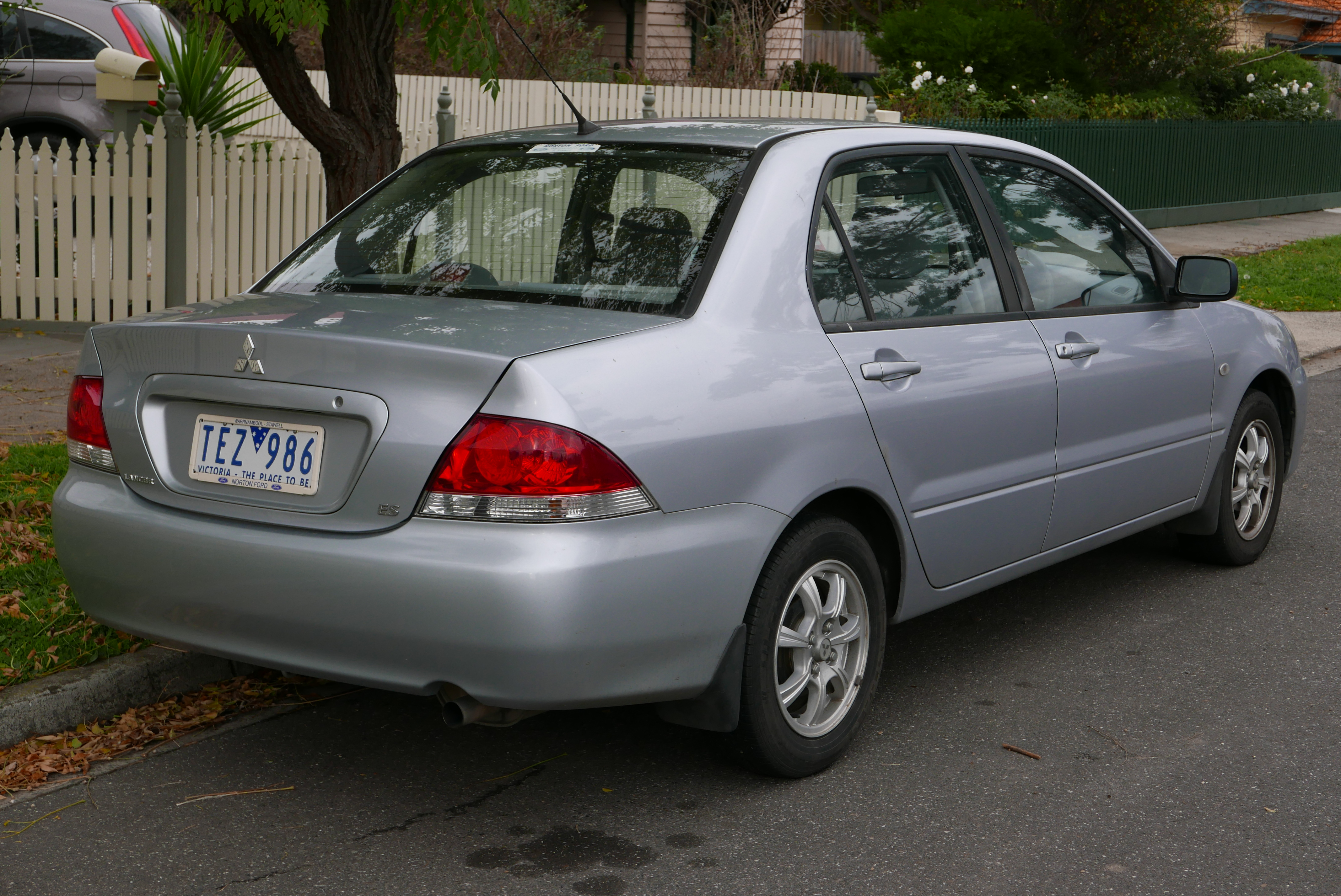 2004 Mitsubishi Lancer (CH MY05) ES Limited Edition sedan. Photographed in Alphington, Victoria, Australia. Vehicle registration enquiry resultsJurisdictionVictoriaRegistrationTEZ986Chassis codeJMFSNCS6A5U001680Engine code4G94QK4202Compliance date2004-10Year of manufacture2004